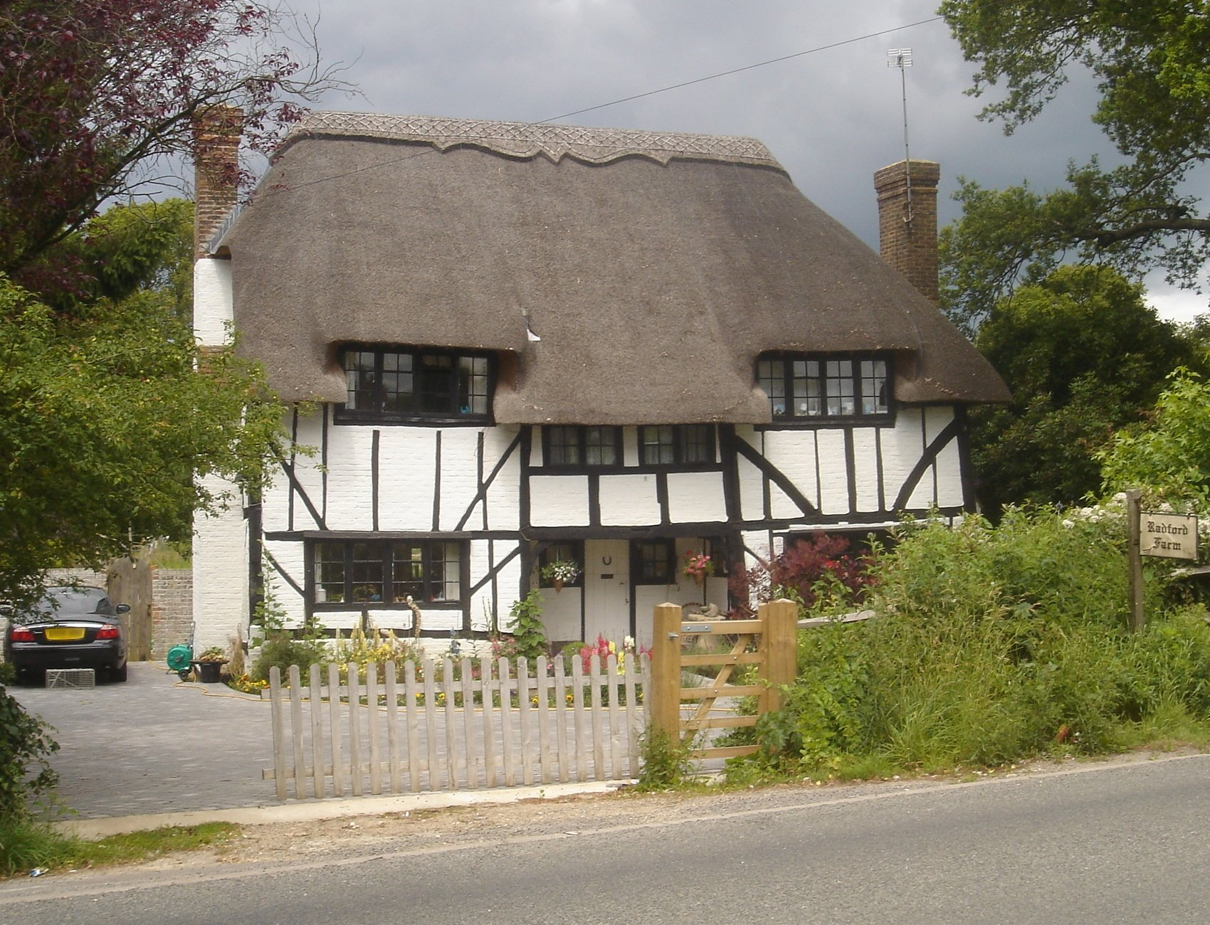 Radford Farmhouse, Radford Road, Tinsley Green, now within the neighbourhood of Pound Hill, Crawley, West Sussex, England. A much-restored 16th-century cottage, possibly originally a barn associated with the neighbouring house (Brookside). Listed at Grade II by English Heritage (IoE Code 363389)